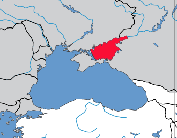 The range of Benthophilus stellatus